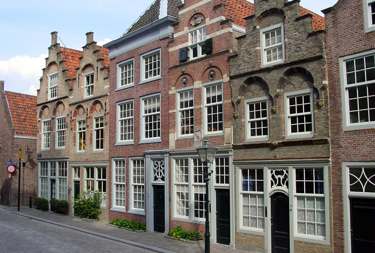 Dordrecht, Hofstraat